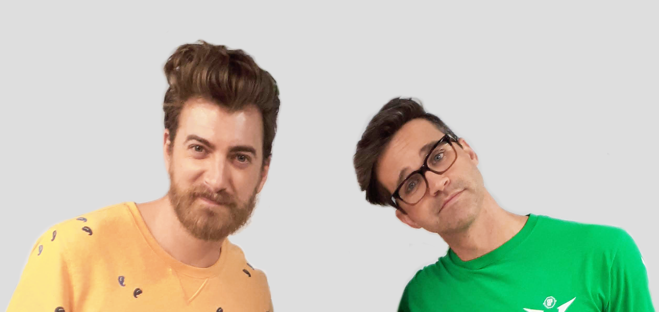 Rhett McLaughlin and Link Neal on Nov 8, 2018.